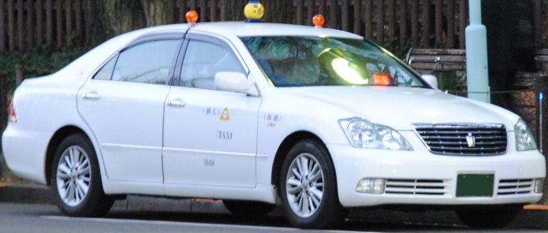 Toyota Crown taxi